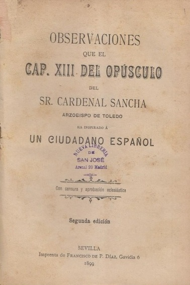 cover page of Observaciones que al capitulo XIII del opúsculo del cardenal Sancha ha inspirado a un ciudadano español